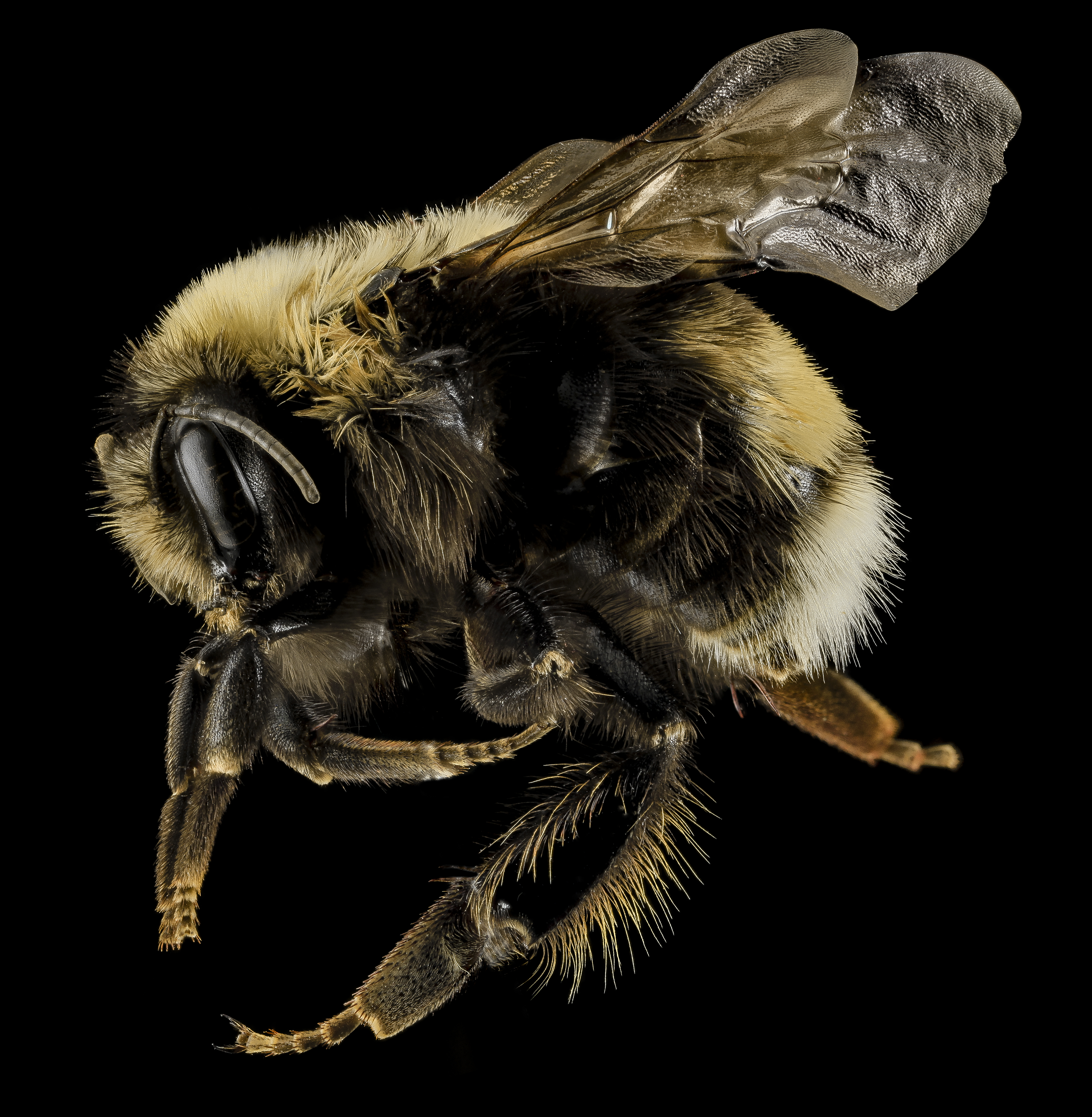 This bumblebee species has almost entirely disappeared from its West Coast range due to a recent epidemic sweeping through some bumblebee populations. However, the Rocky Mountain populations still persist and there is hope that the West Coast population will also recover and resume its place as one of the most common bumblebee species in the West. Note that there are several color variations of this species .... this one is representative of those found in the Rockies. Canon Mark II 5D, Zerene Stacker, 65mm Canon MP-E 1-5X macro lens, Twin Macro Flash, F5.0, ISO 100, Shutter Speed 200, link to a .pdf of our set up is located in our profile